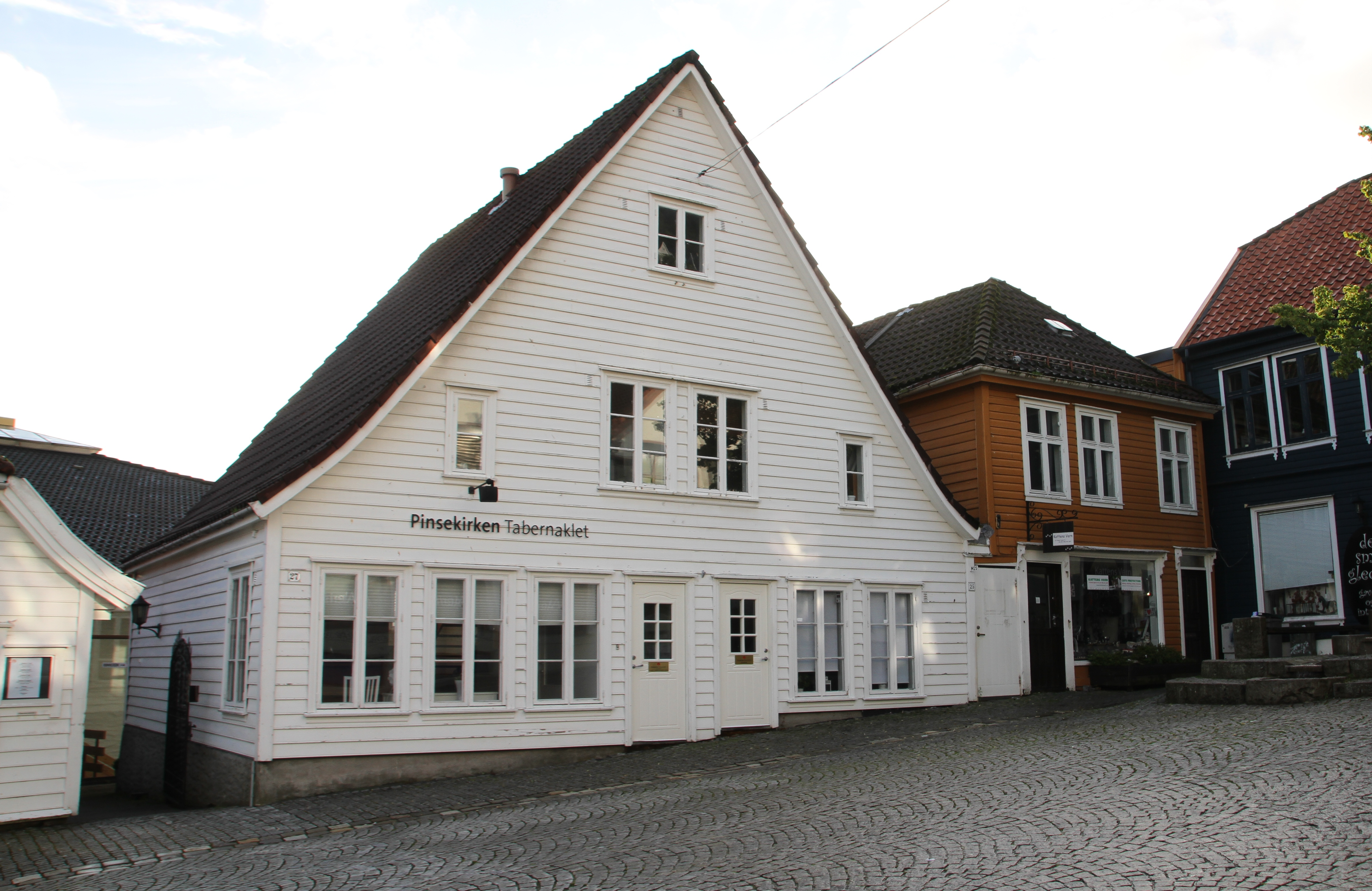 Building in "Marken", an old part of Central Bergen, Norway. All buildings in Marken are collectively listed as Cultural Heritage sites.